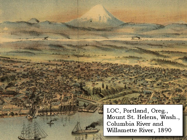 Detail from engraving of Portland, Oregon, with Mount St. Helens in background. A "Bird's-eye-view" of Portland, Oregon in 1890. Original lithograph shows Mount St. Helens, Mount Adams, and Mount Hood, with the Columbia River and the Willamette River. Reference #75694939.